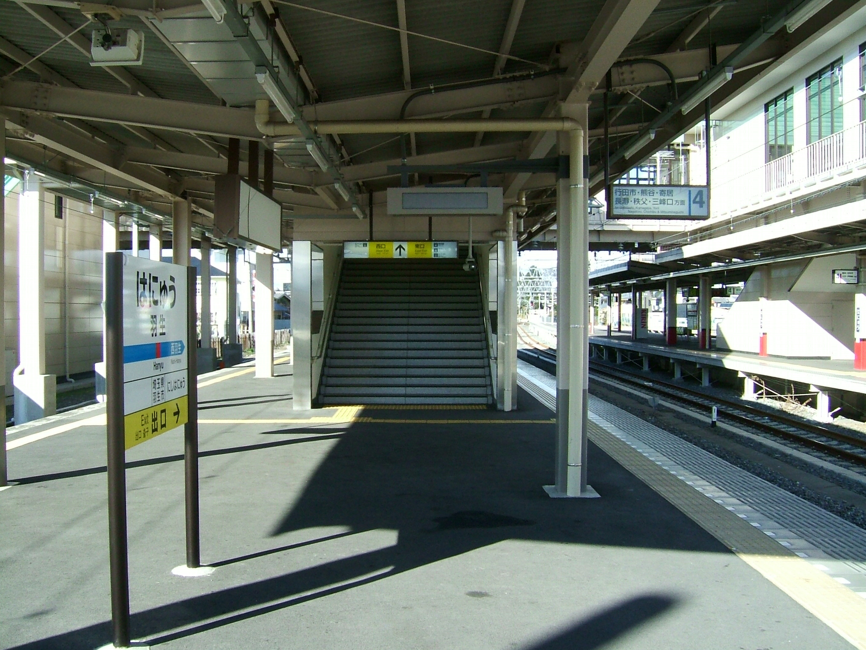 The Chichibu Line platforms (4 and 5) at Hanyu Station in Saitama Prefecture, Japan